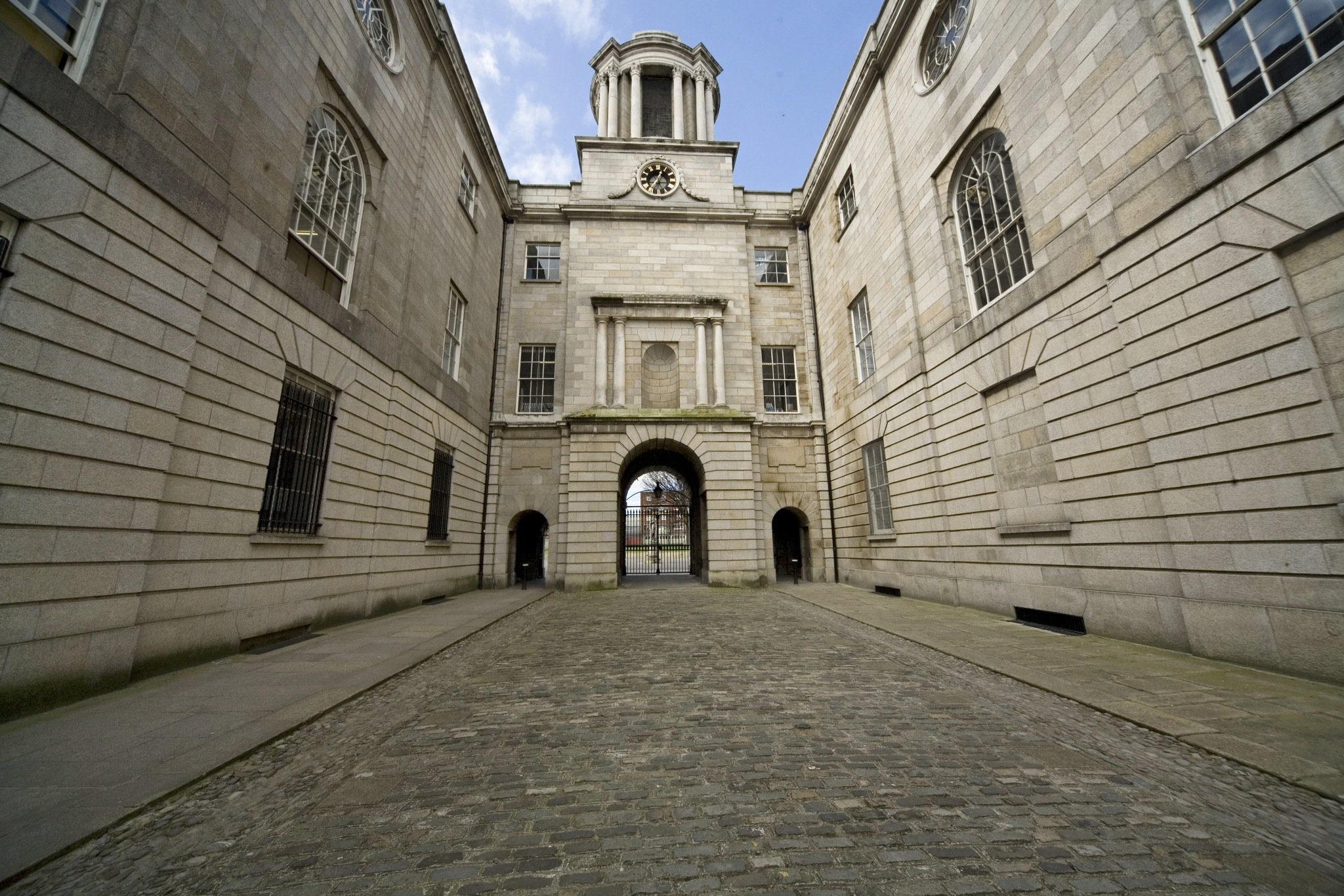 This was the last great public building designed by James Gandon and was designed to provide study and residence facilities for barristers. As with the Four Courts the building process was plagued with delays. Started in 1795, Gandon resigned from the job in 1808 and handed the project to his pupil Henry Aaron Baker who finished the work in 1816. Like the Fours Courts and the Custom House, the building was designed with its main western façade on a waterfront as the Royal Canal once had a spur and harbour where the park is now. Originally there was also a plan for a crescent to contain barristers chambers but this was never constructed.